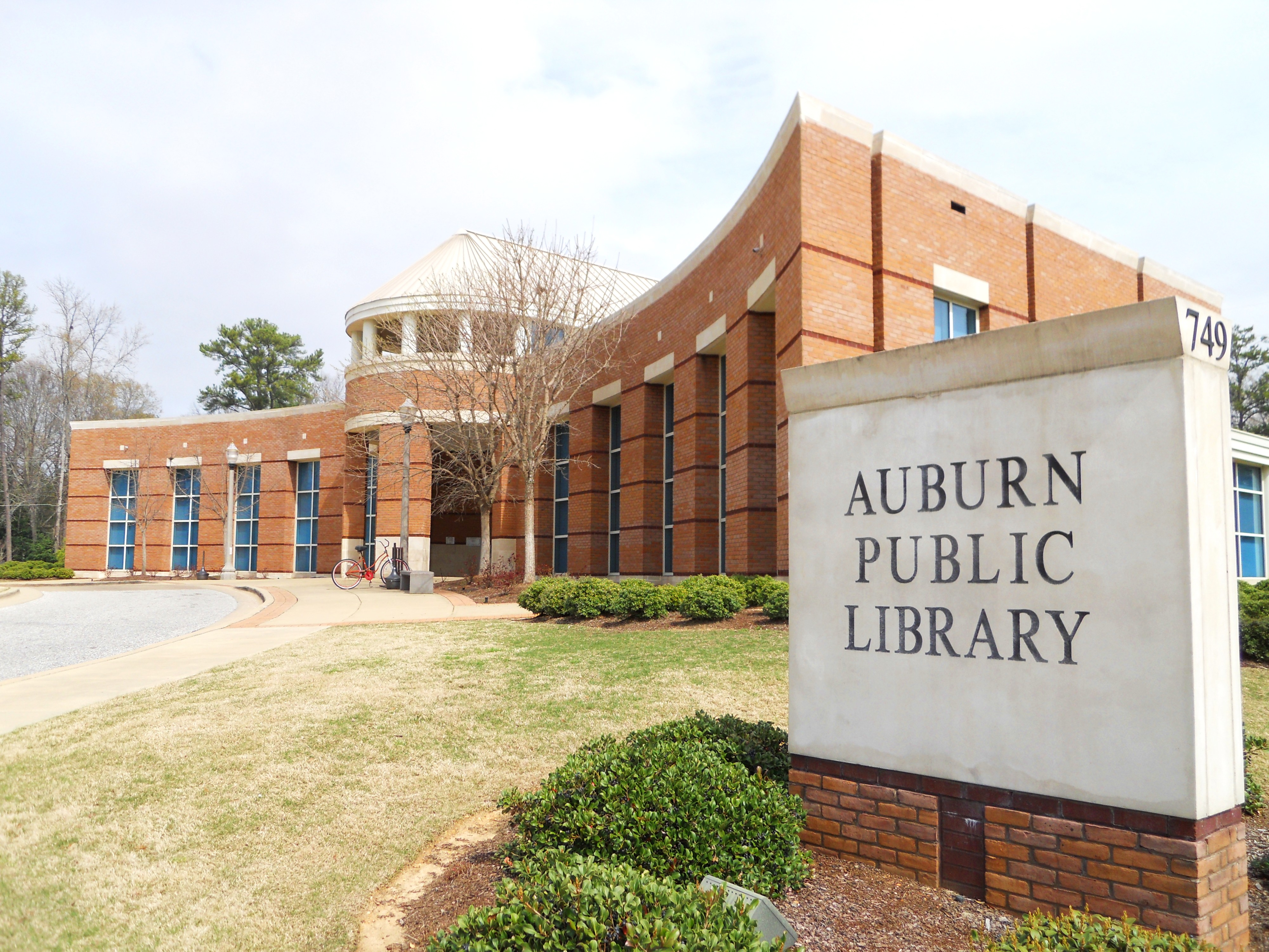 This is a photograph of the Auburn Public Library located at 749 East Thach Avenue in Auburn, Alabama.